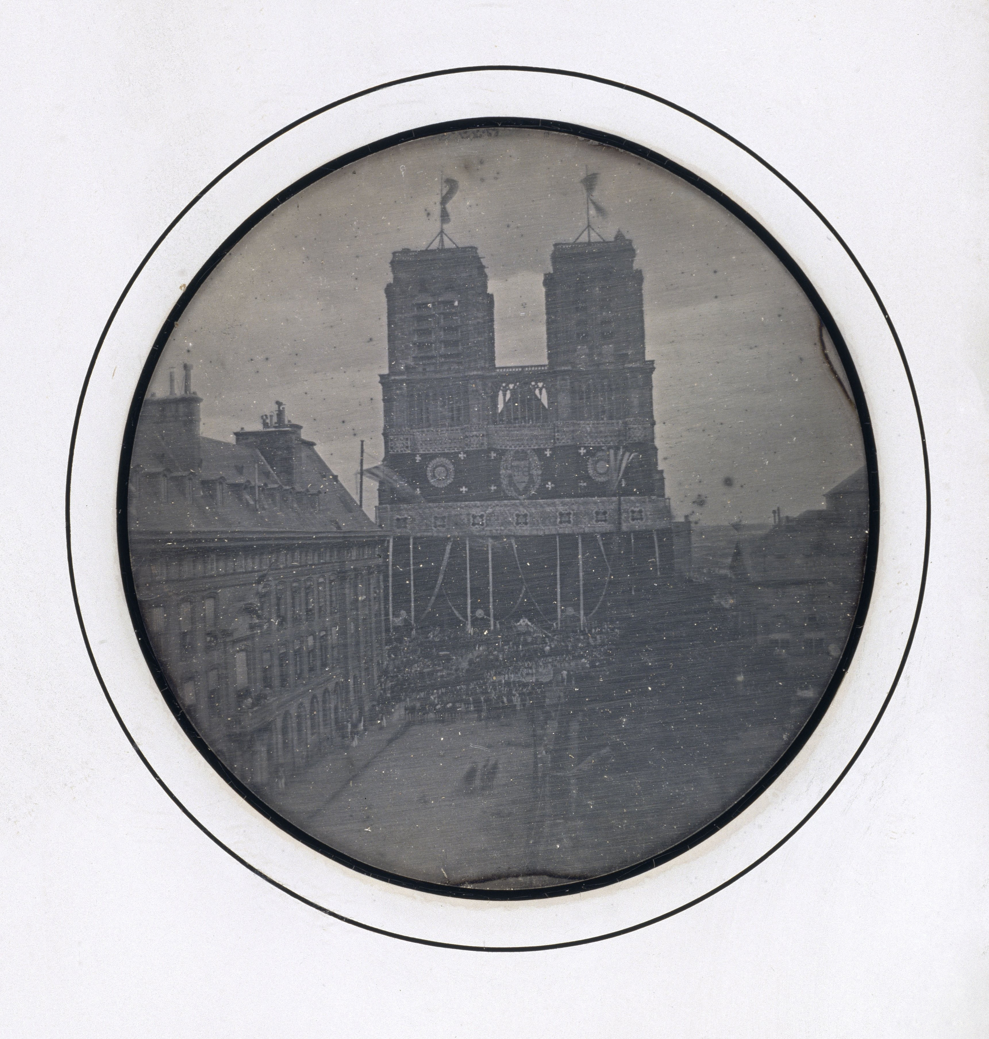 Burial of the Duke of Orléans. View from rue Neuve-Notre-Dame showing at left the Hôspital des Enfants trouvés, in the background the west facade of the cathedral Notre-Dame de Paris.